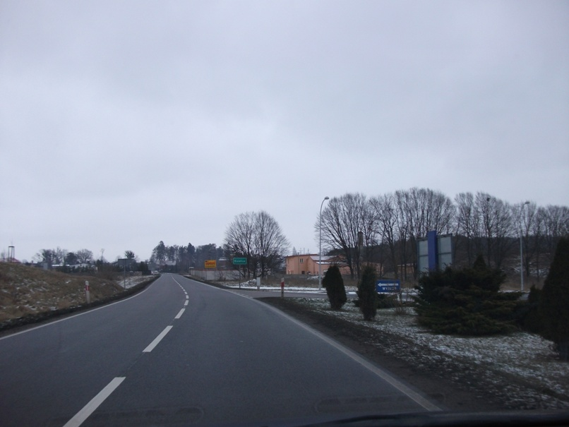 National road 16 (Poland) in Kisielice (2)